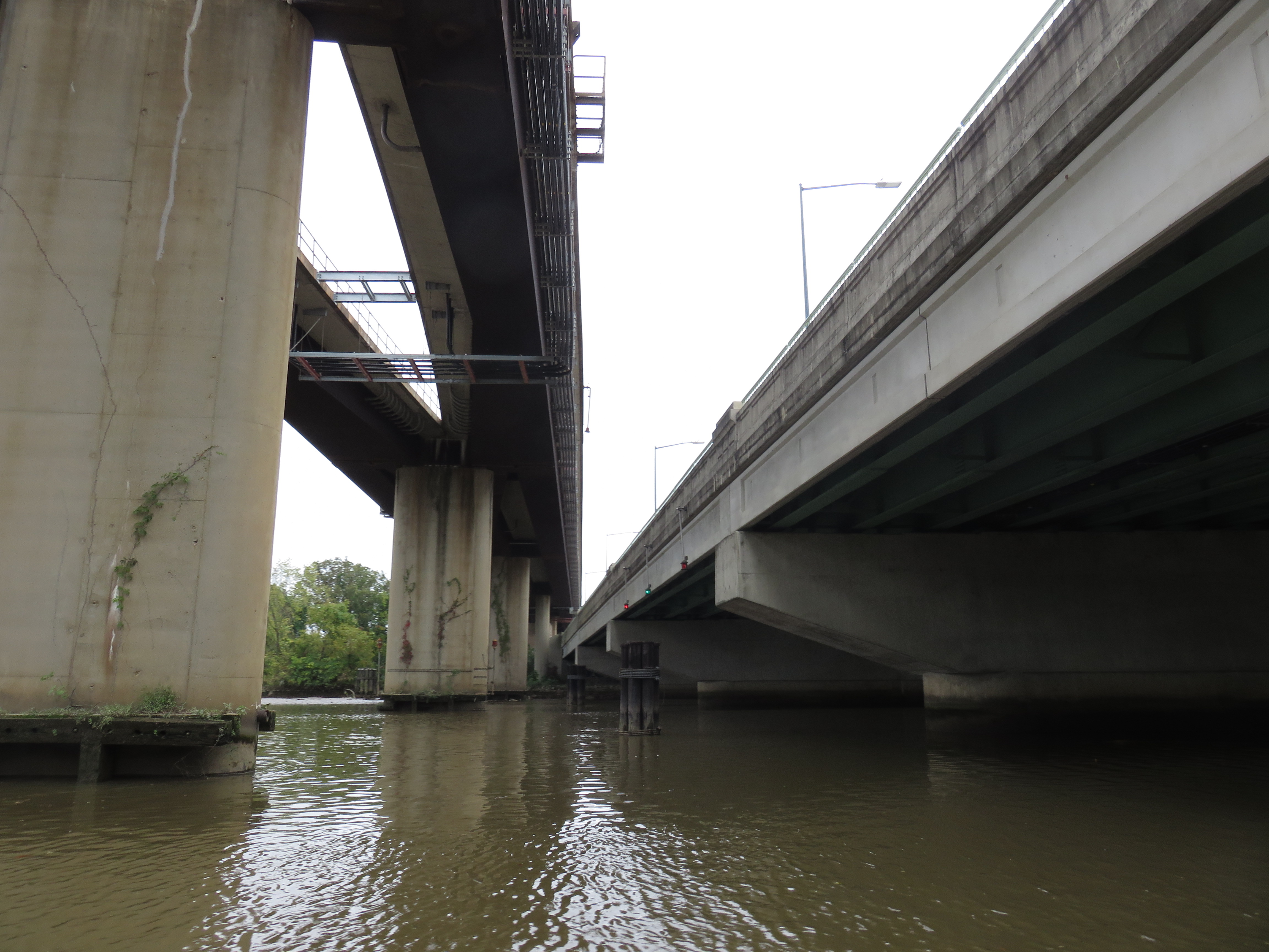 Underside of the Benning Bridge over the Anacostia River in Washington, D.C. in 2018. The Metro bridge is to the left, and the road bridge is to the right.